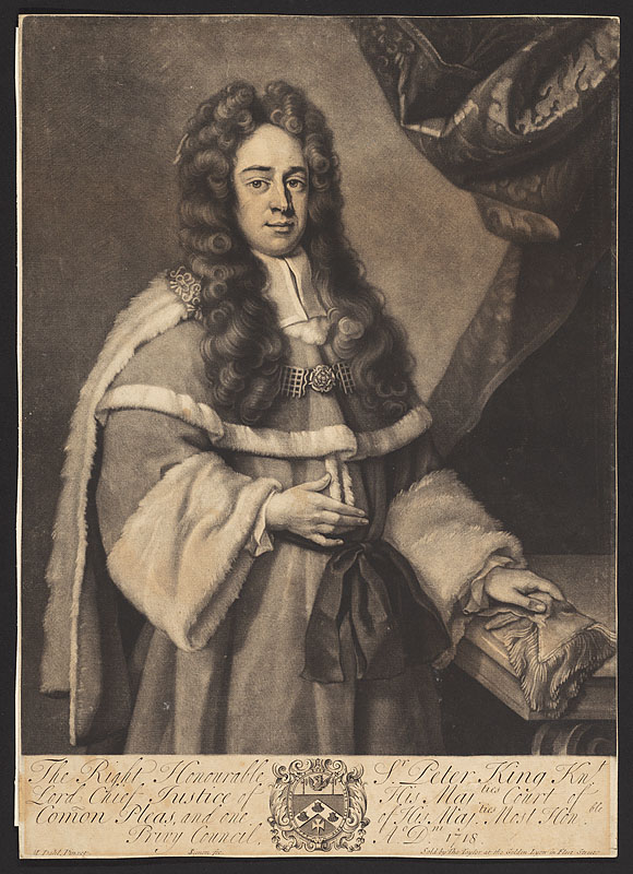 Peter King, 1st Baron King (c.1669-1734)